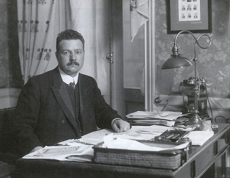 Gerhard Magnusson (1872-1940) at the editorial office of the social-democratic daily newspaper Social-Demokraten